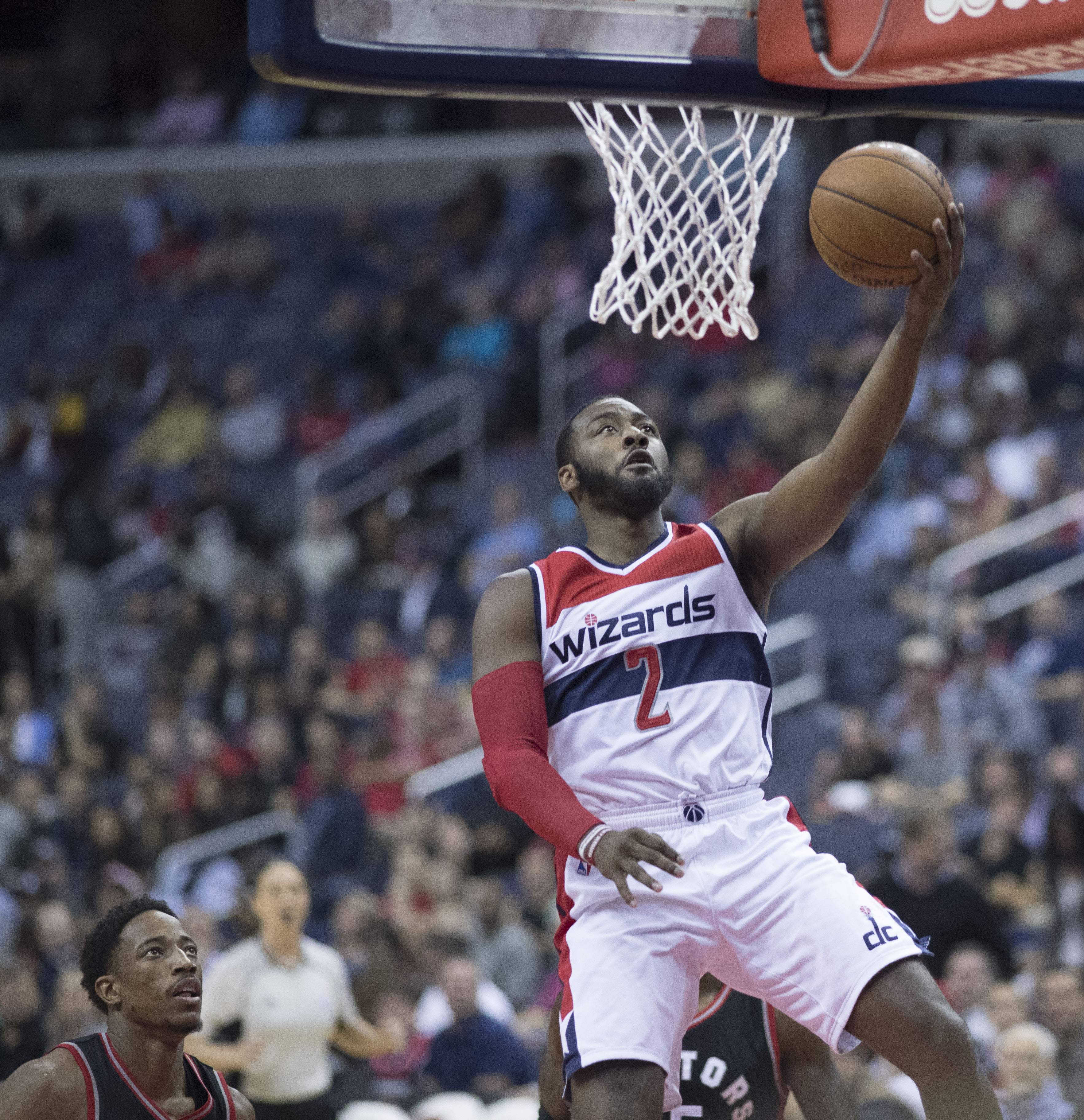 John Wall of the Washington Wizards during a game against the Toronto Raptors at Verizon Center on November 2, 2016 in Washington, DC.